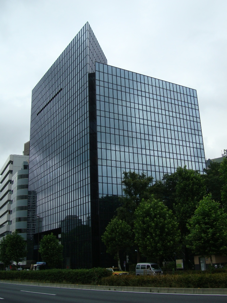 The Sogetsu Kaikan building, Akasaka, Tokyo. This Kenzo Tange-designed building is the headquarters of Sogestu-Ryu, one of the major Ikebana schoos, and was completed in 1977. This is located on Aoyama Street.